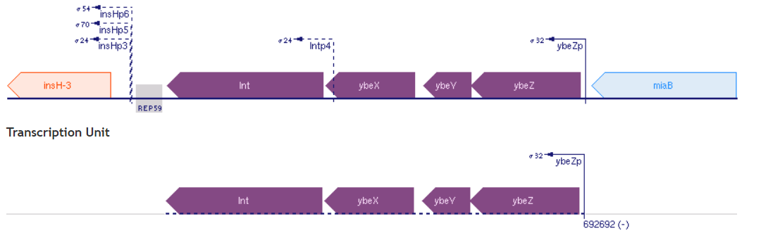 Operone ybeZYX-lnt sceme